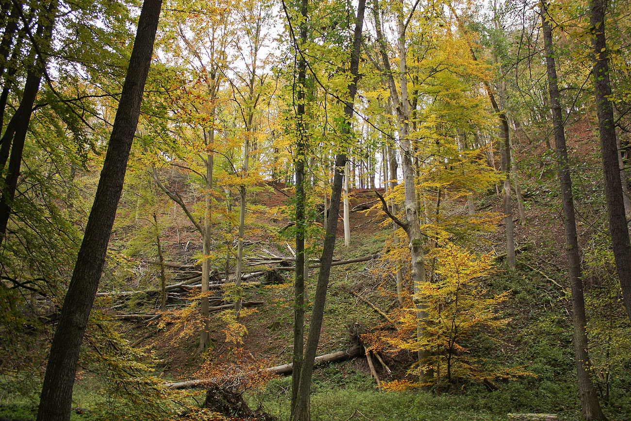 Křivoklátsko - Divoké údolí Oupořského potoka